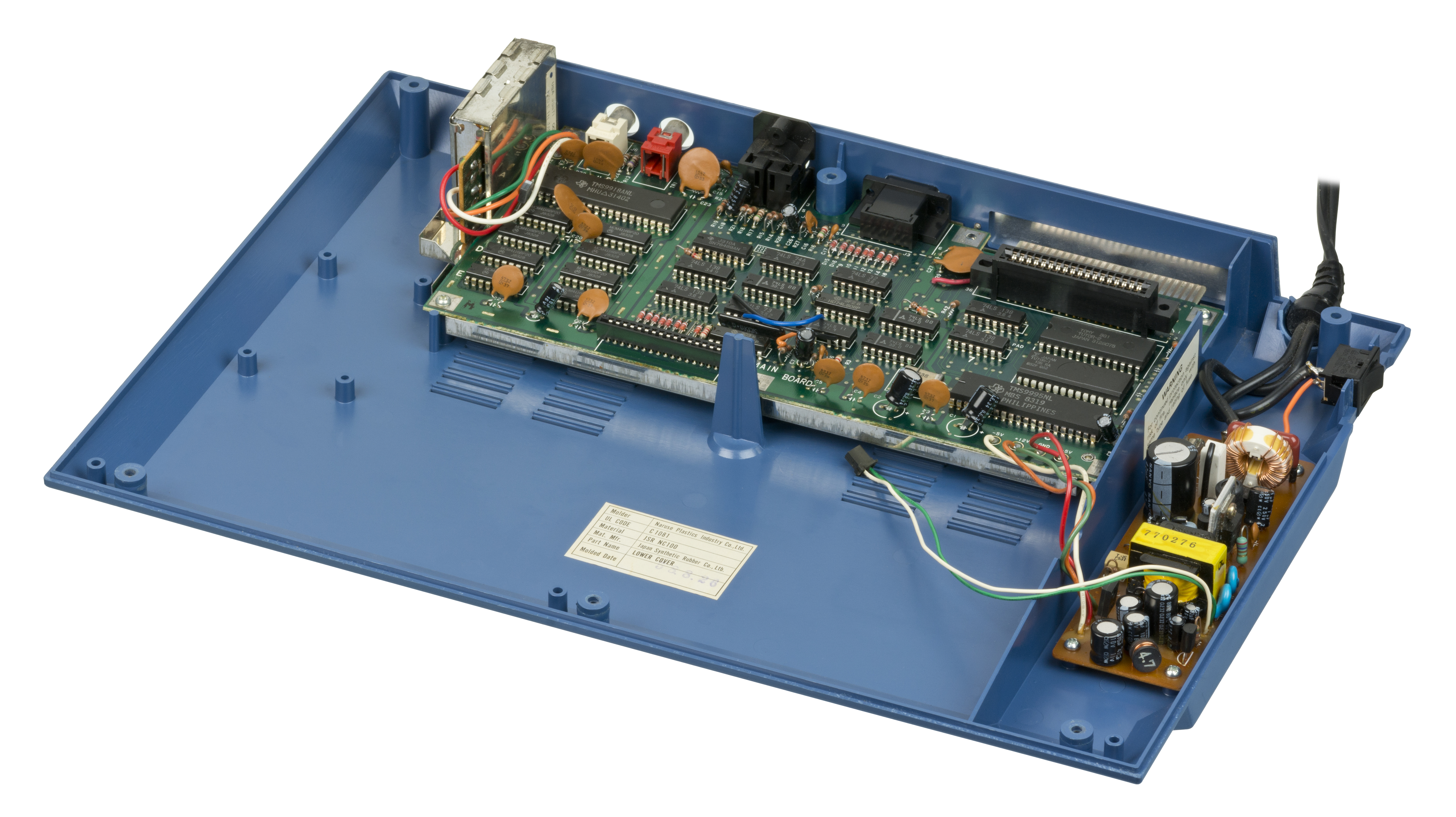 The inside of the Tomy Tutor, a 16-bit home computer that was made by the Japanese toymaker Tomy and launched in the United States in 1983. The Tutor focused on children and education, with a software library made up of games and learning titles.